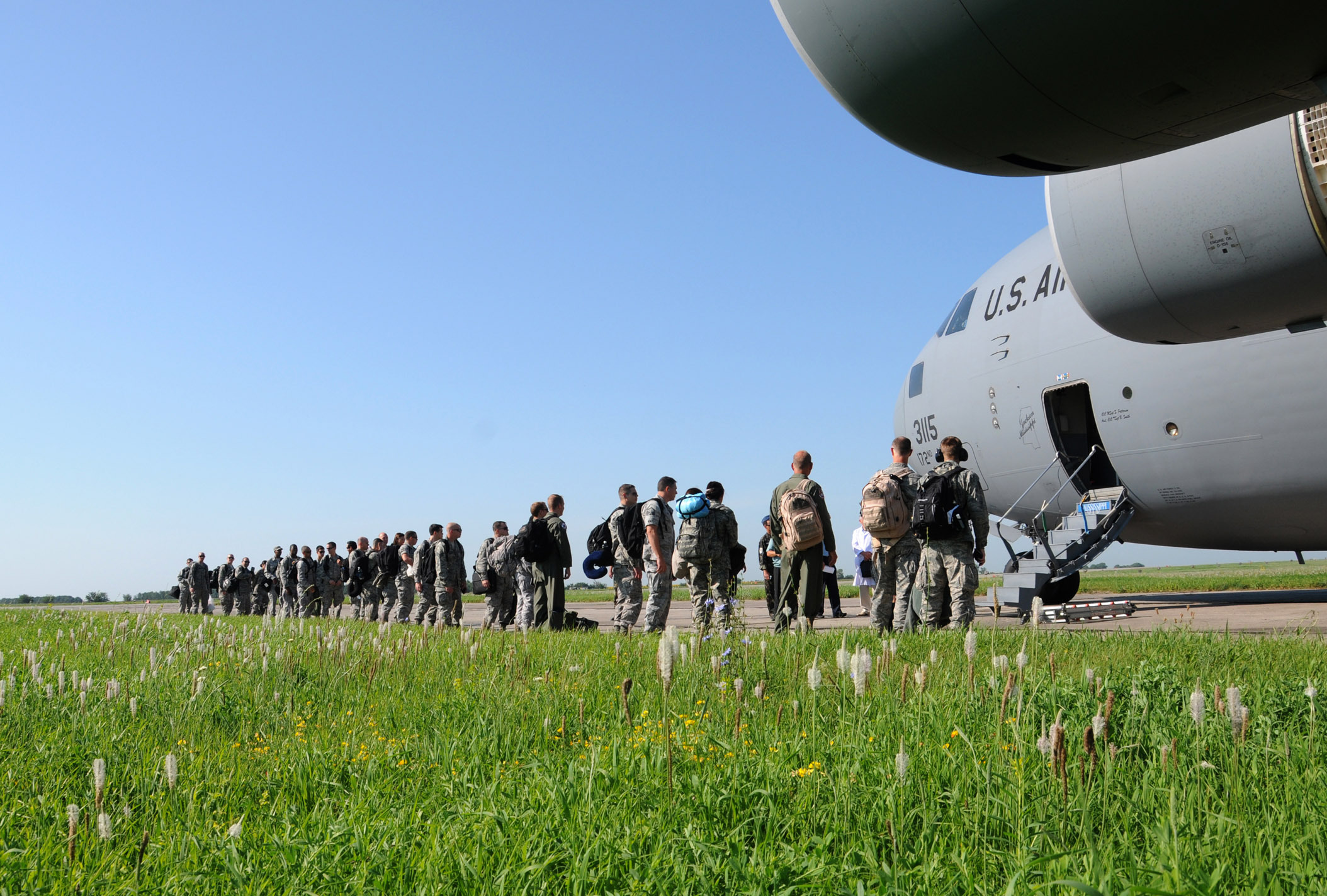 Members of the California and Alabama Air National Guards arrive at Mirgorod Air Base, Ukraine, July 16, 2011, to take part in Safe Skies 2011. Safe Skies 2011 is a military-to-military exchange between the US, Ukraine and Poland to enhance airspace security over the Ukraine and Poland in preparation for Eurocup 2012.